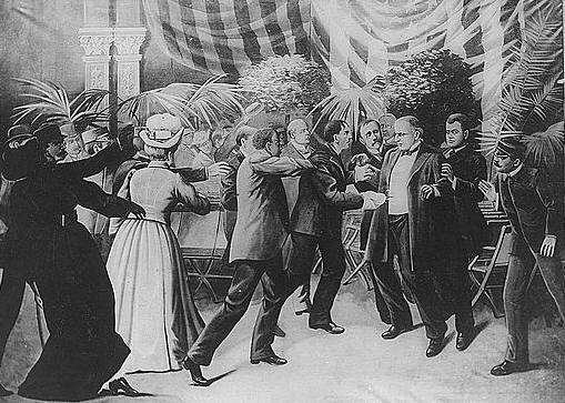 Czolgosz shoots President McKinley with a concealed revolver, at Pan-American Exposition reception, Sept. 6th, 1901. Photograph of wash drawing